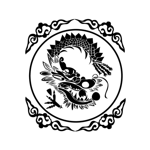 This dragon pattern designed by root ornament in 'duksugung' korea palace.